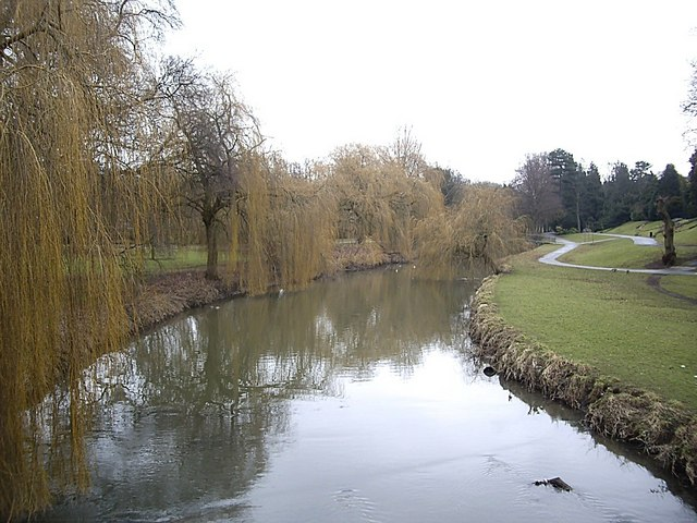 Upstream River Skerne Into South Park, from Geneva Road bridge.